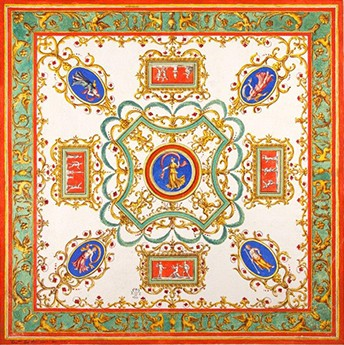 Drawing of a ceiling in the Palatine.